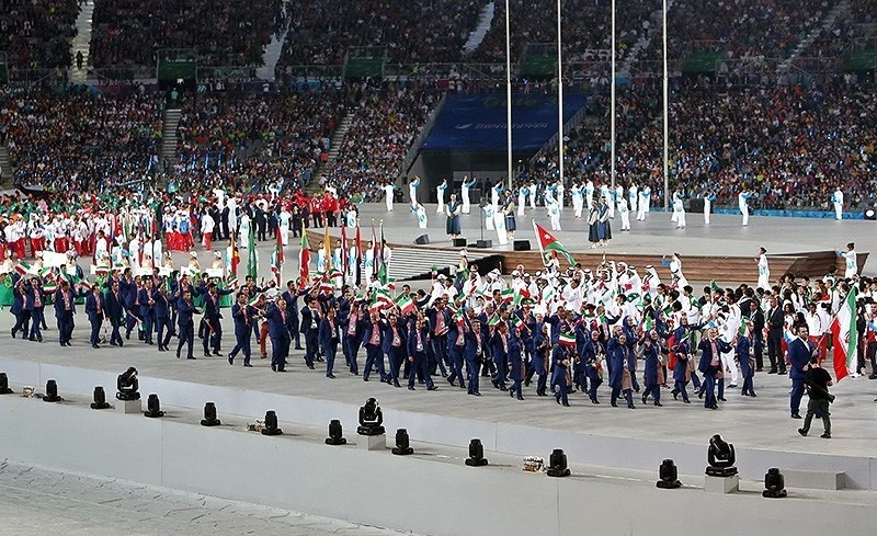 2014 Asian Games opening ceremony